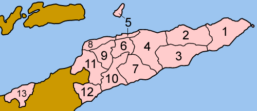 Map of the districts of East Timor, now obsolete, numbered in Portuguese (native language) alphabetical order, compatible with English. Lautém Baucau Viqueque Manatuto Dili Aileu Manufahi Liquiçá Ermera Ainaro Bobonaro Cova-Lima Oecussi-Ambeno